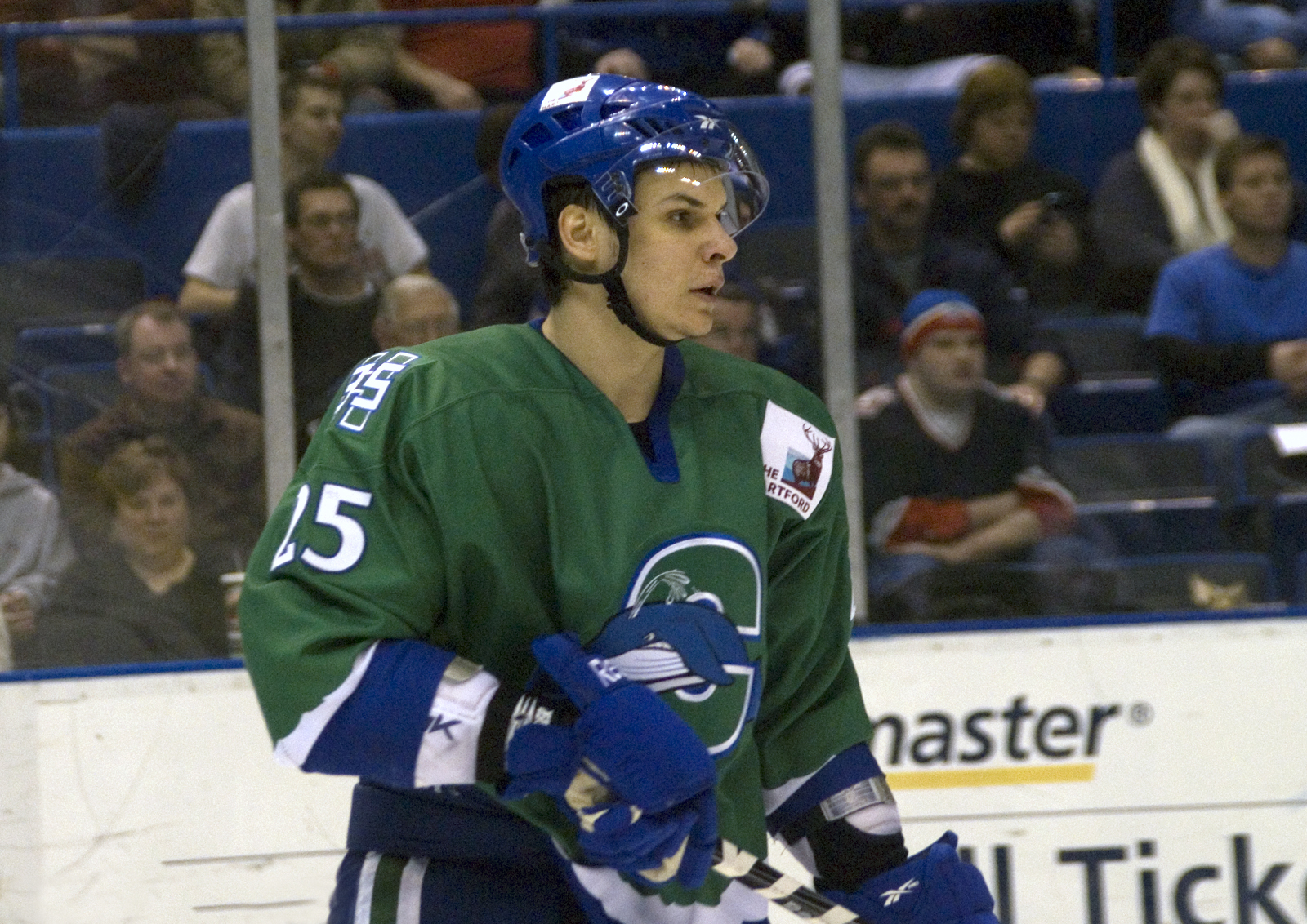 Pavel Valentenko Providence Bruins vs Connecticut Whale in American Hockey League action at the XL Center in Hartford, Connecticut. This photo was taken by Sarah Connors on January 15, 2011 using a Nikon D200. This photo also appears in sarah_connors' Flickr photostream, and is one of a set of 216 "Providence @ Whale, 1/15/11" Tags: Boston Bruins, Providence Bruins, New York Rangers, Connecticut Whale, NHL, AHL, XL Center, hockey, icehockey, Hartford Wolf Pack